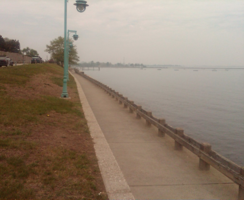 St Marys by the Sea walkway, Black Rock Harbor, Bridgeport, Connecticut